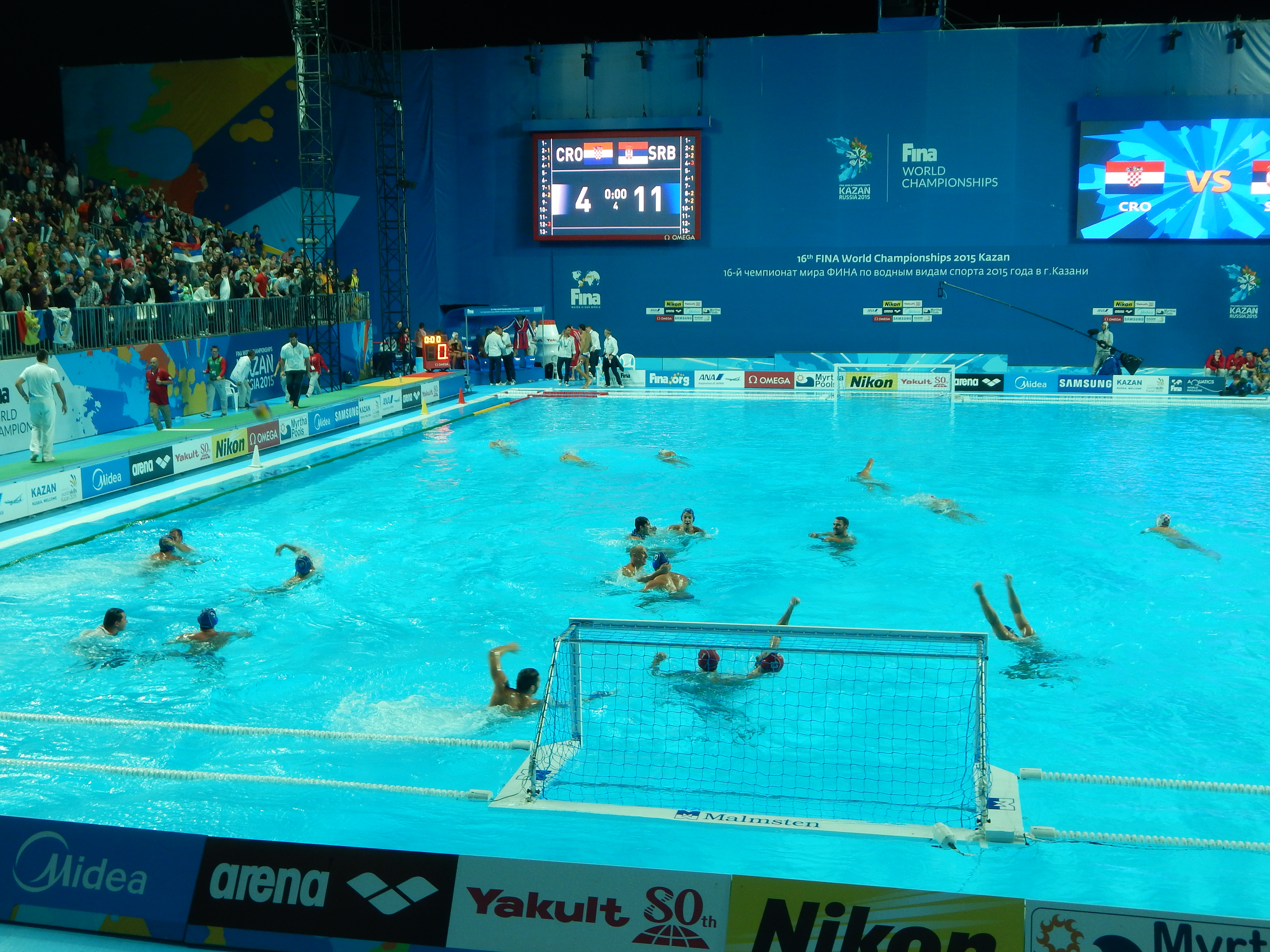 The gold medal match between Team Serbia and Team Croatia and the victory ceremony. All photos have been taken from the photographers sector. I was simply usual visitor but my ticket was to non-existent seats, therefore I was moved to that sector. All good photos I upload to WikiCommons for free use.